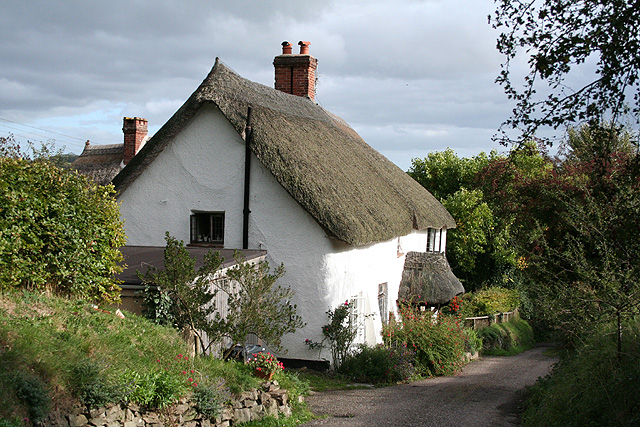 Woolfardisworthy: Glebe Cottage Looking south east by the lane to the church. A typical Devon cottage of cob and thatch with a buttress to support the front wall